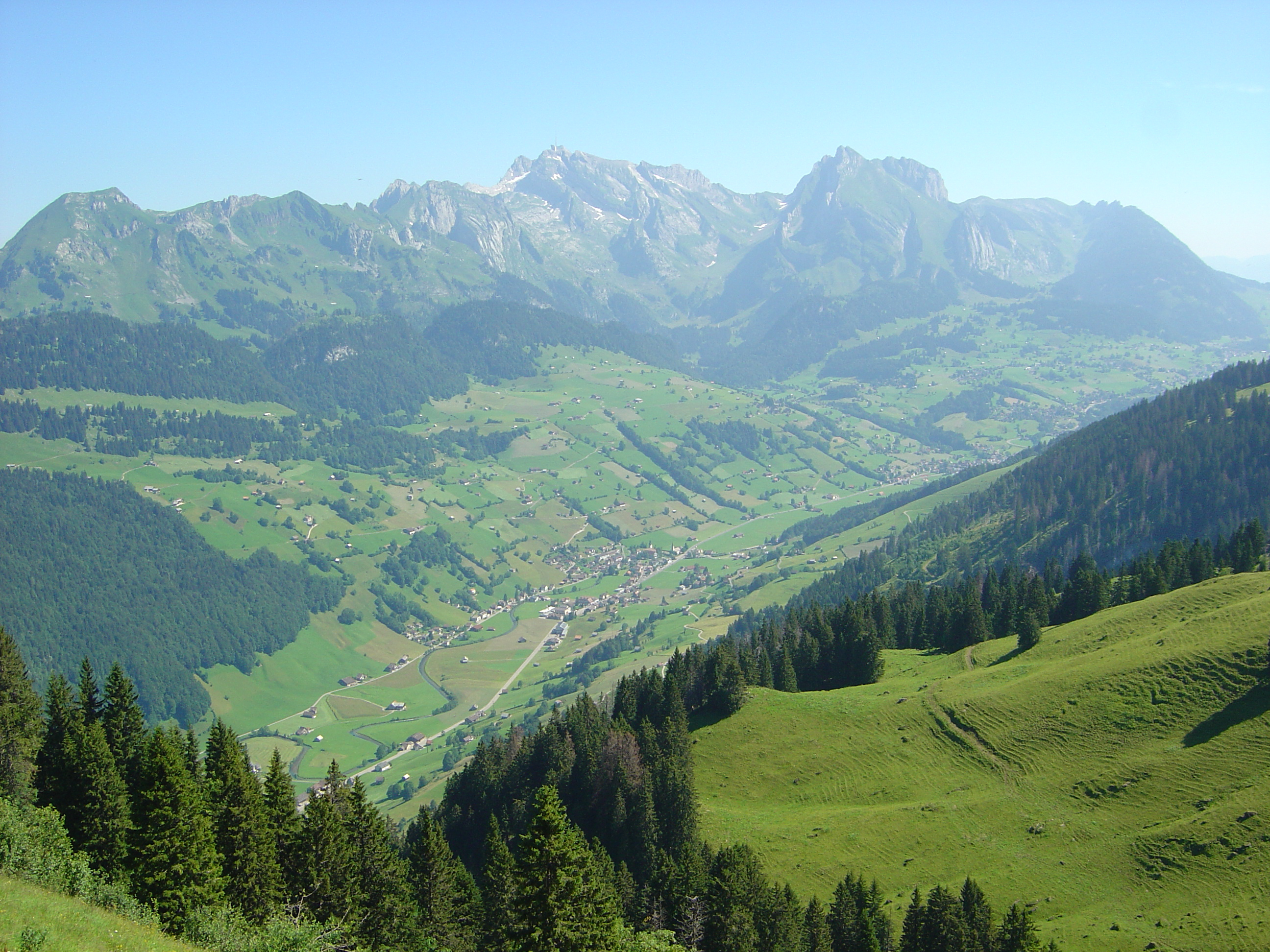 Description: Alt St. Johann (Canton of St. Gallen, Switzerland). In the background the Säntis. Source: Photograph taken on July 29, 2004 (first upload in de.wikipedia) Photographer: Benutzer:Breeze